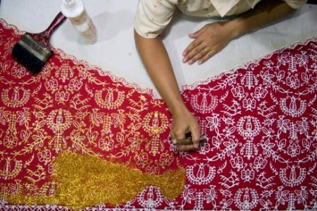 Darti uses a copper pen to put some glue on cotton at a batik workshop Gulurejo village, Indonesia. Darti is taking part in an Australian-funded workshop that trained more than 85 local women how to improve their livelihoods through microfinance and better business practices. Photo: Ahmad Salman/AusAID